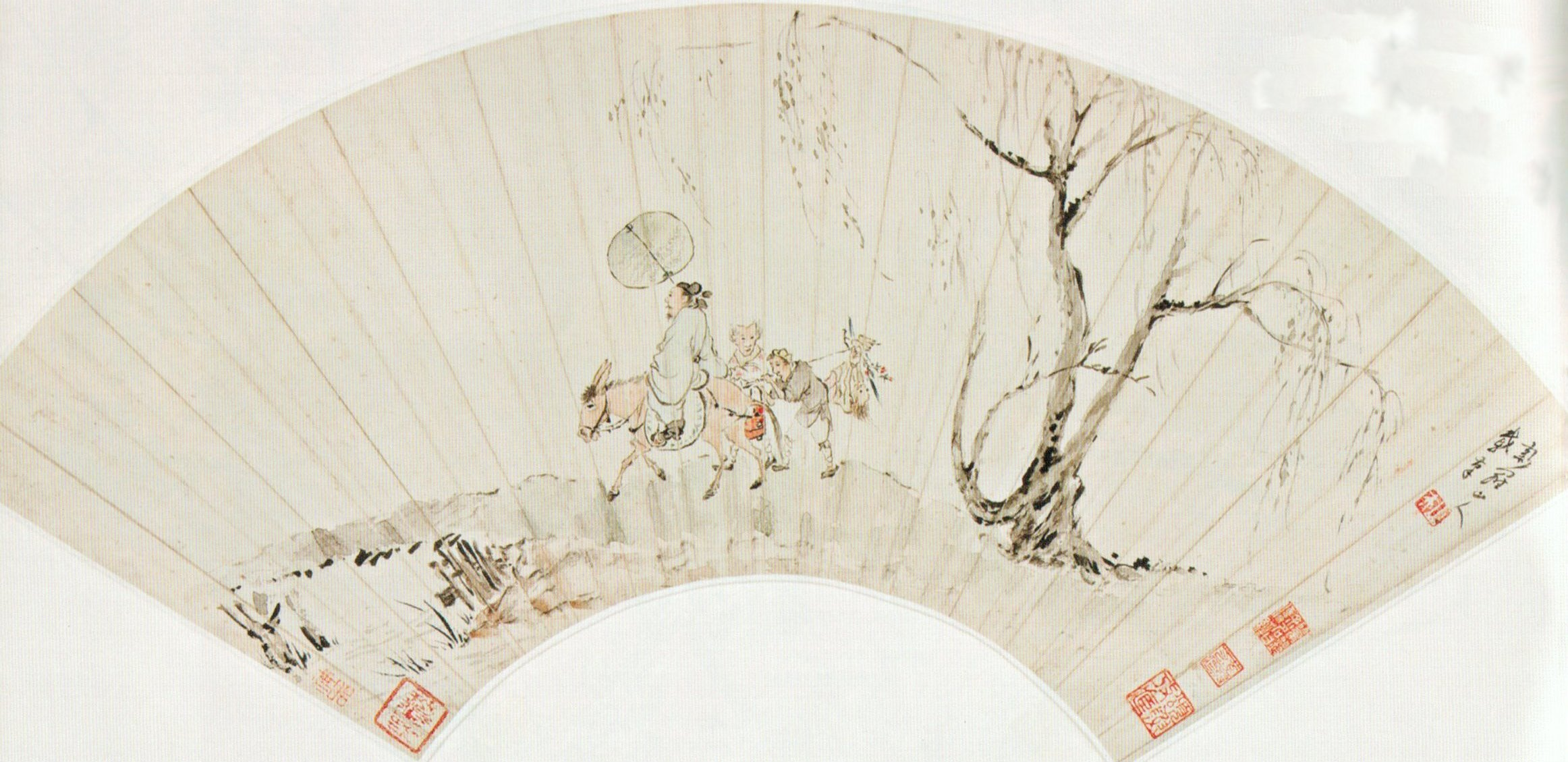 Zhong Kui and Demons, ink and color on paper fan by Hua Yan (Hua Yan), 18th century Chinese, Honolulu Museum of Art, accession 3505.1